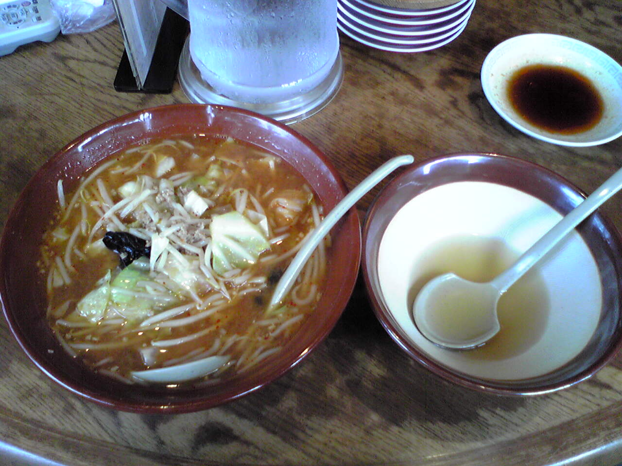 Miso ramen of ramen shop "Komadori" in Nishikan-ku, Niigata, Niigata, Japan.